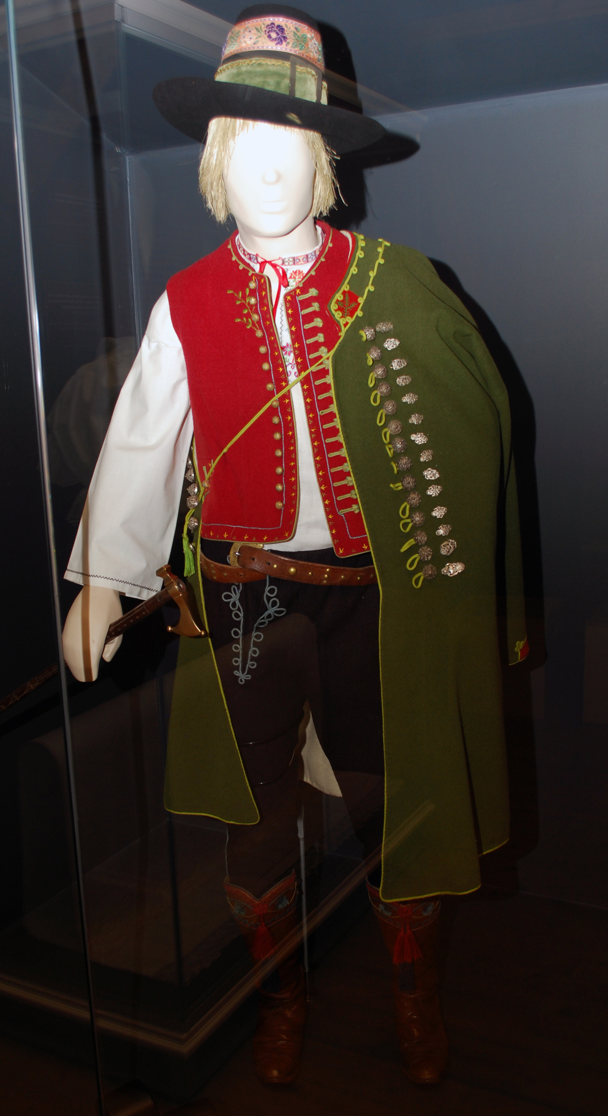 Traditional Vlachs fesitve costume from I quarter of XX century